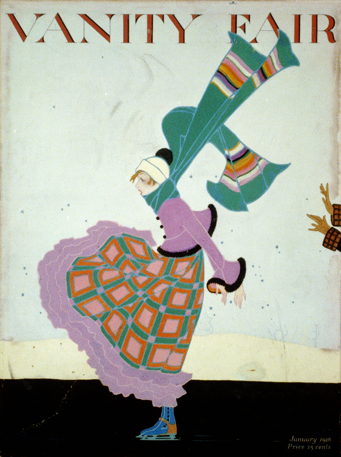 Skater with scarf. January 1916 Vanity Fair cover by Ethel Caroline Rundquist. Gouache over pencil on watercolor board, 60 x 45 cm. (sheet). Exhibited at Brooklyn Museum, "A Century of American Illustration," 1972.